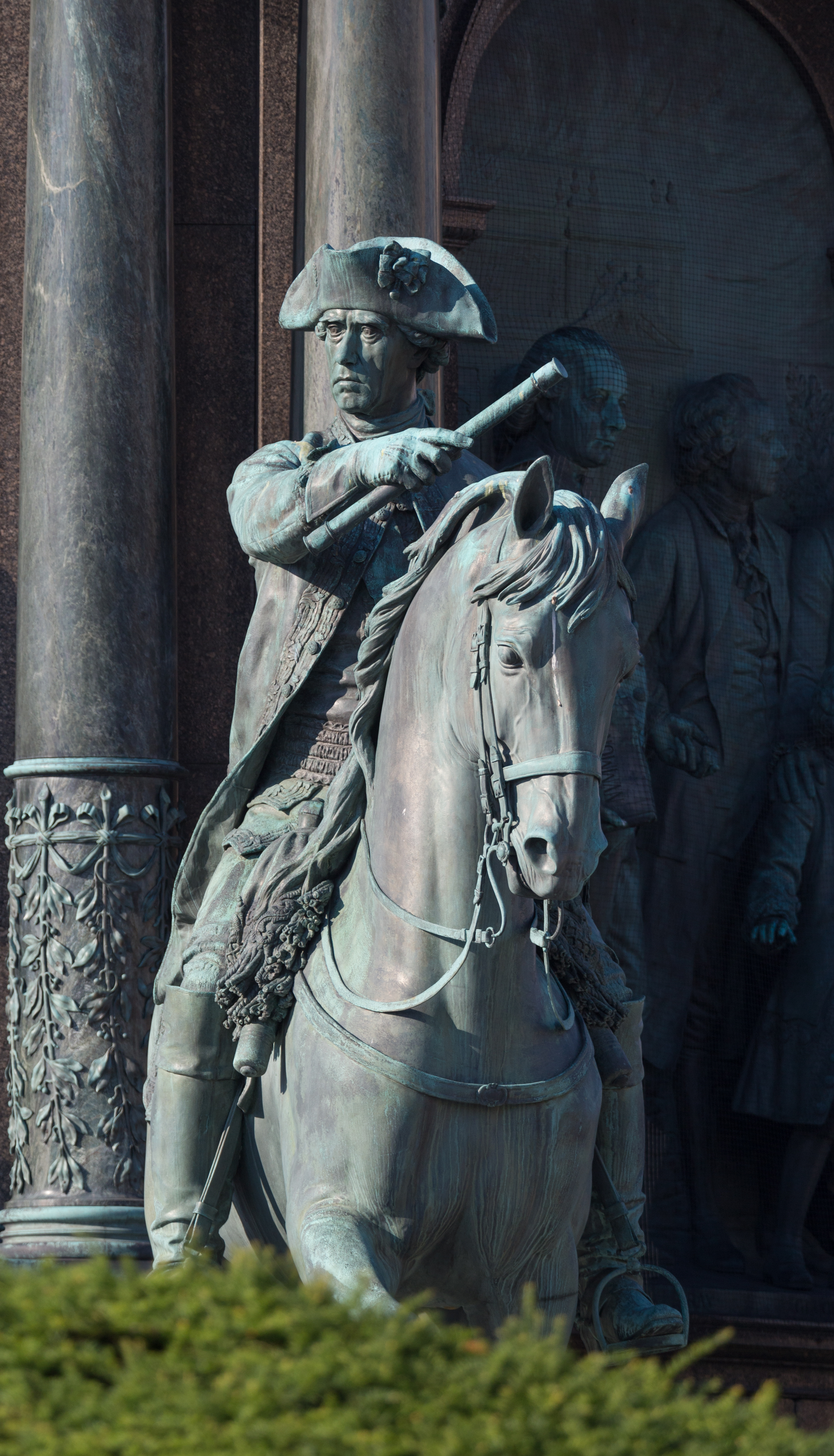 Maria-Theresia-square, Maria-Theresia monument, artist: Kaspar von Zumbusch (errected 1874-1888), main figure The making of this work was supported by Wikimedia Austria. For other files made with the support of Wikimedia Austria, please see the category Supported by Wikimedia Österreich.